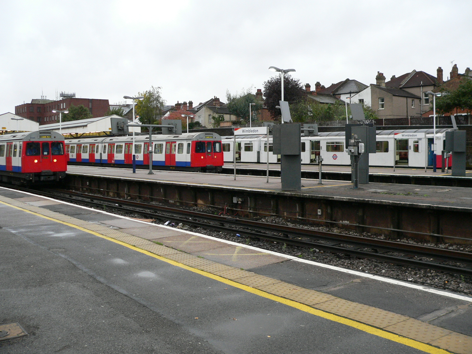 Three London Underground District Line electic multiple units at Wimbledon station in south London. The two trains nearest the camera are 'C' stock units painted in LU's corporate red, white and blue livery. The furthest train is an unrefurbished 'D' stock train in an older, all-over white livery.